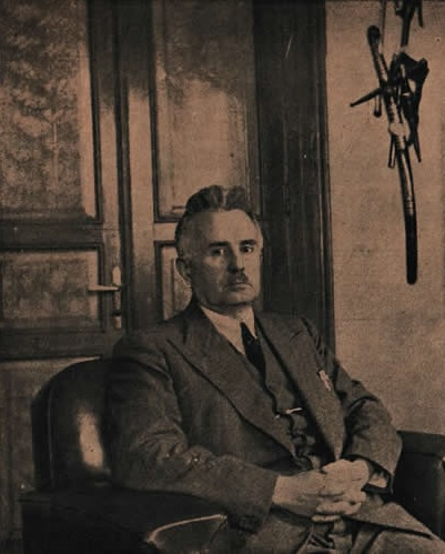 Karabekir in his room during an interview, Erenköy, Istanbul, 1939.